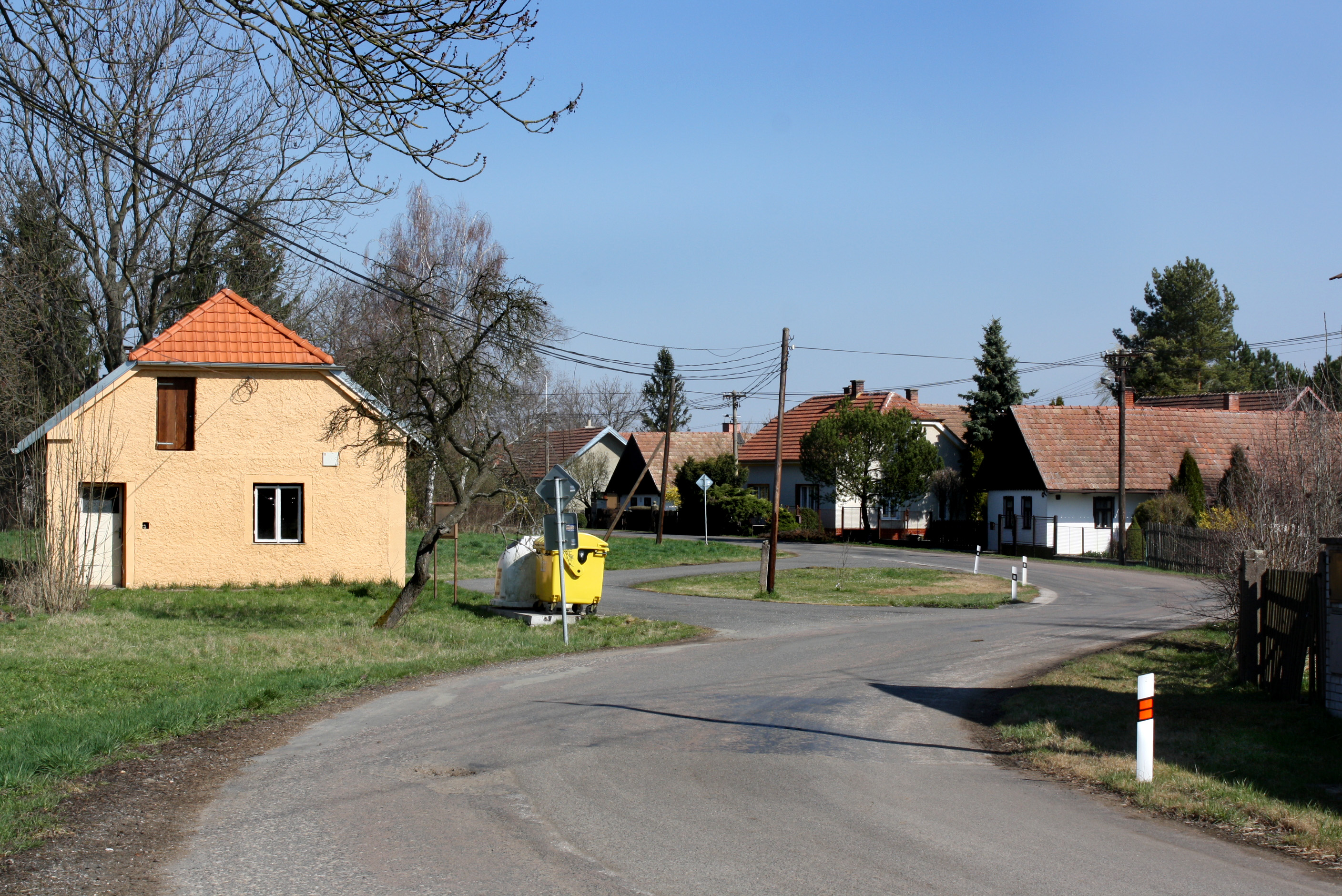 Common in Nová Ves, part of Chotěšice village, Czech Republic